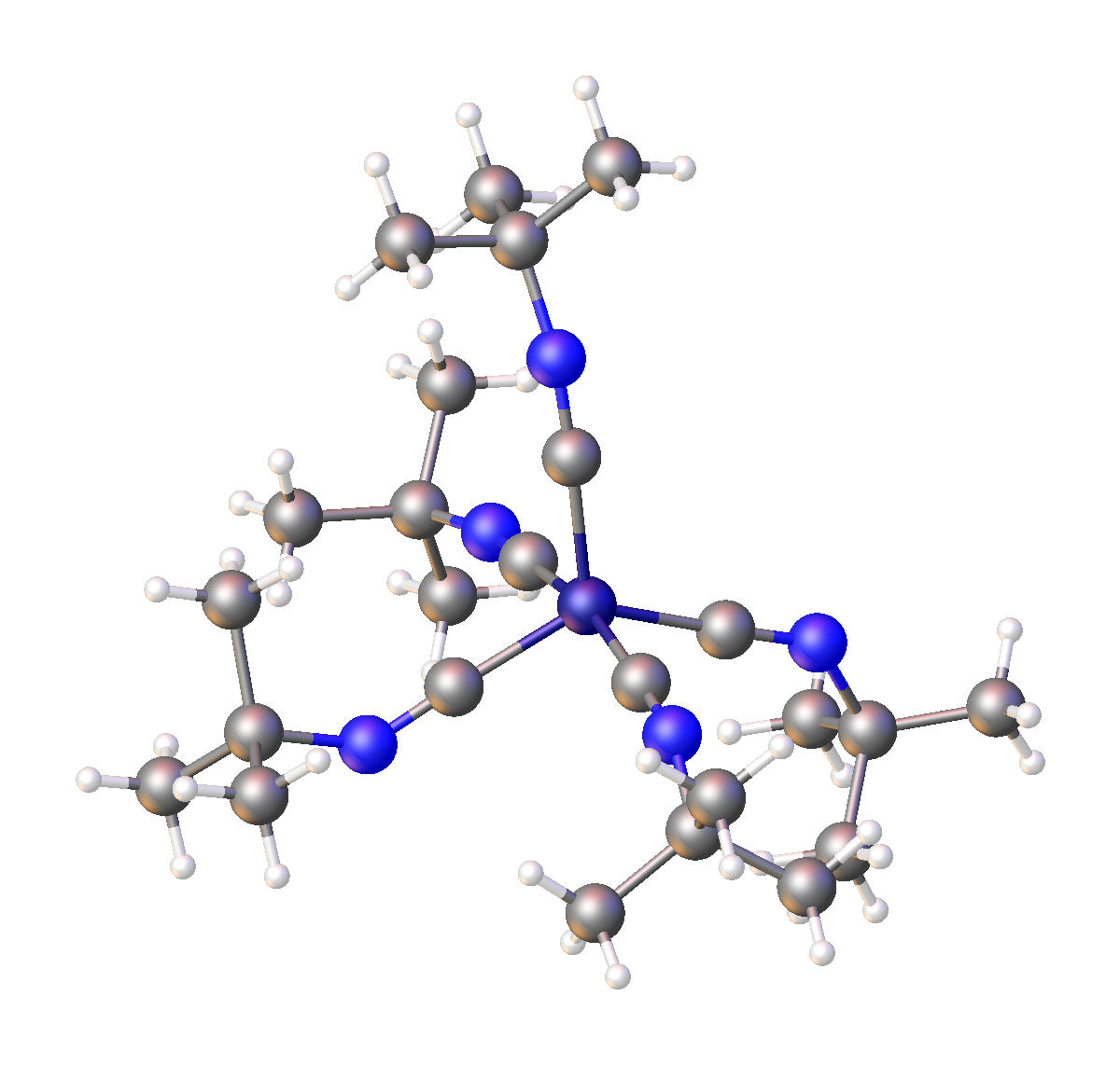 Fe(t-BuNC)5